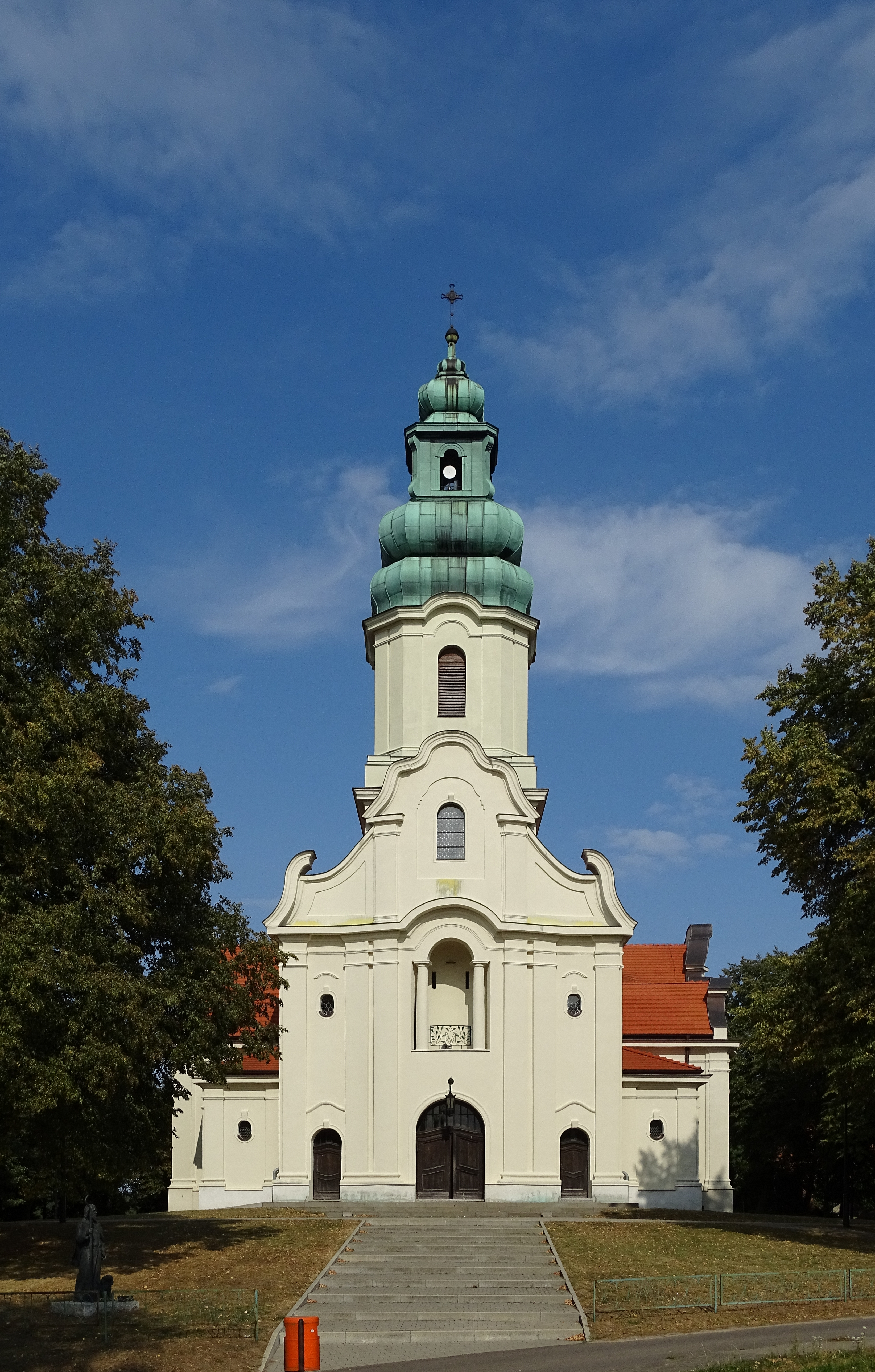 Dąbrówka Kościelna, Greater Poland. Church dedicated to the Assumption of the Blessed Virgin Mary.